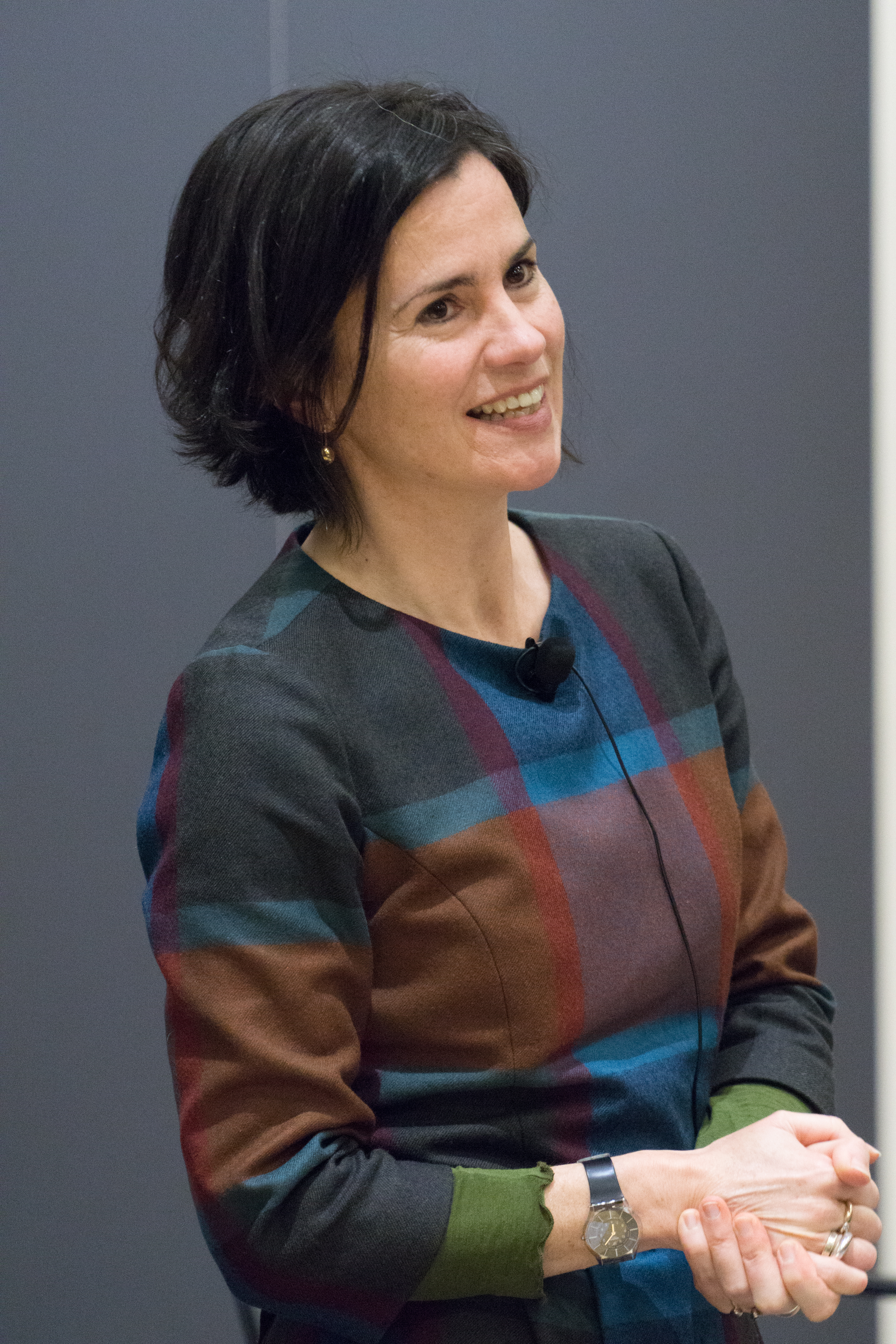 Miranda Fricker at the Edmond J. Safra Center for Ethics.